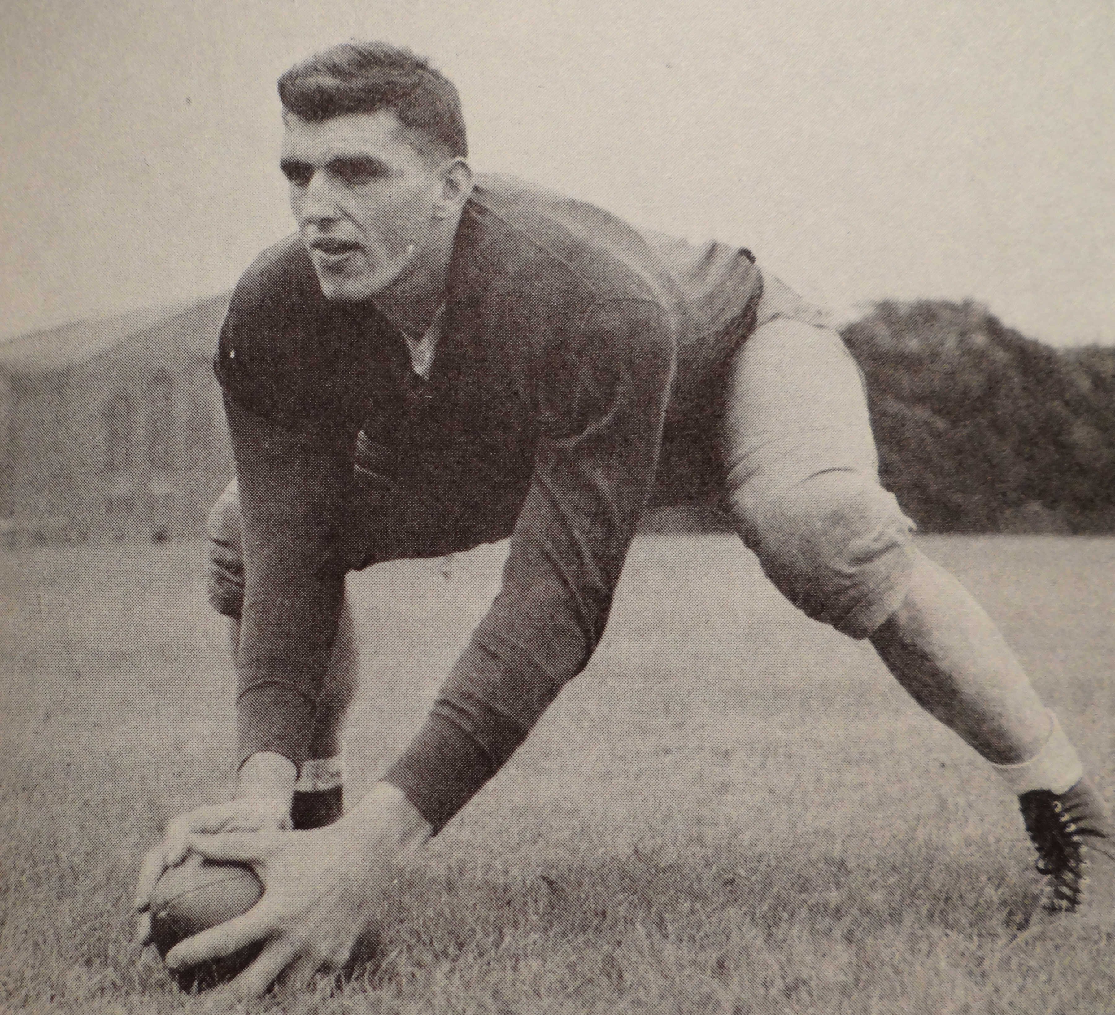 Photograph of Fred Negus